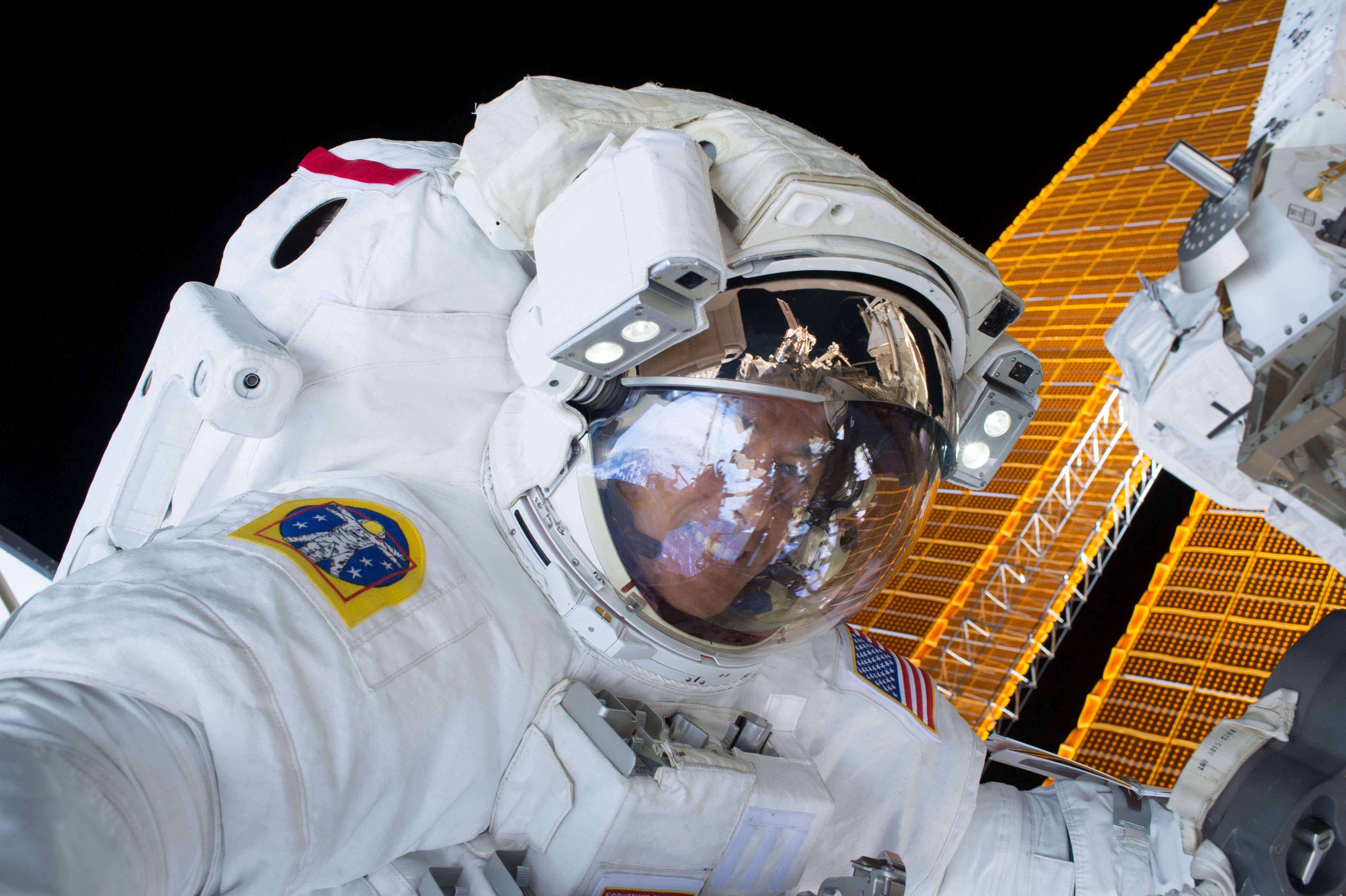 NASA astronaut Shane Kimbrough is seen during a spacewalk during Expedition 50 aboard the International Space Station. Kimbrough and fellow NASA astronaut Peggy Whitson successfully installed three new adapter plates and hooked up electrical connections for three of the six new lithium-ion batteries on the International Space Station. They also accomplished several get-ahead tasks, including a photo survey of the Alpha Magnetic Spectrometer.